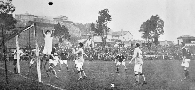 Football match: national teams of New Zealand (in black) and Australia.